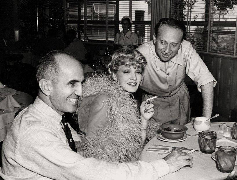 L. to R. : George Marshall (director), Marlène Dietrich, and Joe Pasternak (producer) on the set of the film Destry Rides Again (1939) - publicity still